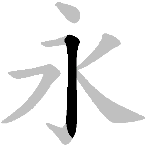 eight principles of the character Yong 永 (永字八法 Yǒngzì Bāfǎ) of the Chinese calligraphy